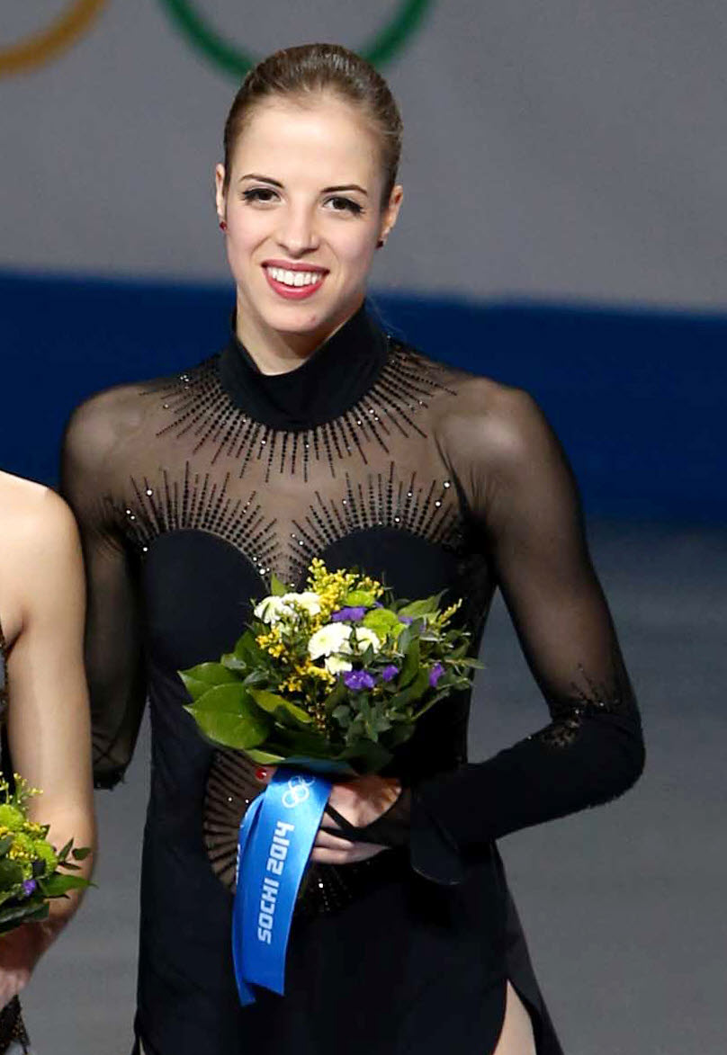 Kim Yuna, 2014 Sochi Winter Olympic Games Figure Skating Ladies Free Skating. February 20, 2014 Iceberg Skating Palace, Sochi, Russia Photo: The Korean Olympic Committee Related Articles -English- Farewell to the queen: Kim gives it her all in her final performance ‘Figure Skating Queen’ Kim Yuna aims at second Olympics gold 'Enjoy your time in Sochi': President Olympics team heads to Sochi -Deutsch- Die „Königin des Eiskunstlaufs” Kim Yuna kämpft um ihr zweites olympisches Gold -中文- 花滑女王金妍儿自由滑比赛值得期待 -日本語- キム・ヨナ、最後の舞台ですべて出し切る 「フィギュアクイーン」キム・ヨナ、あとはフリーだけ 김연아, 2014 소치 동계올림픽 피겨 스케이팅 여자 프리 스케이팅 2014-02-20 러시아, 소치. 아이스버그 스케이팅 팰리스 사진: 대한체육회 코리아넷 기사 김연아, 마지막 무대에서 모든 것을 보여주다 ‘피겨 여왕’ 김연아 프리(Free)만 남았다